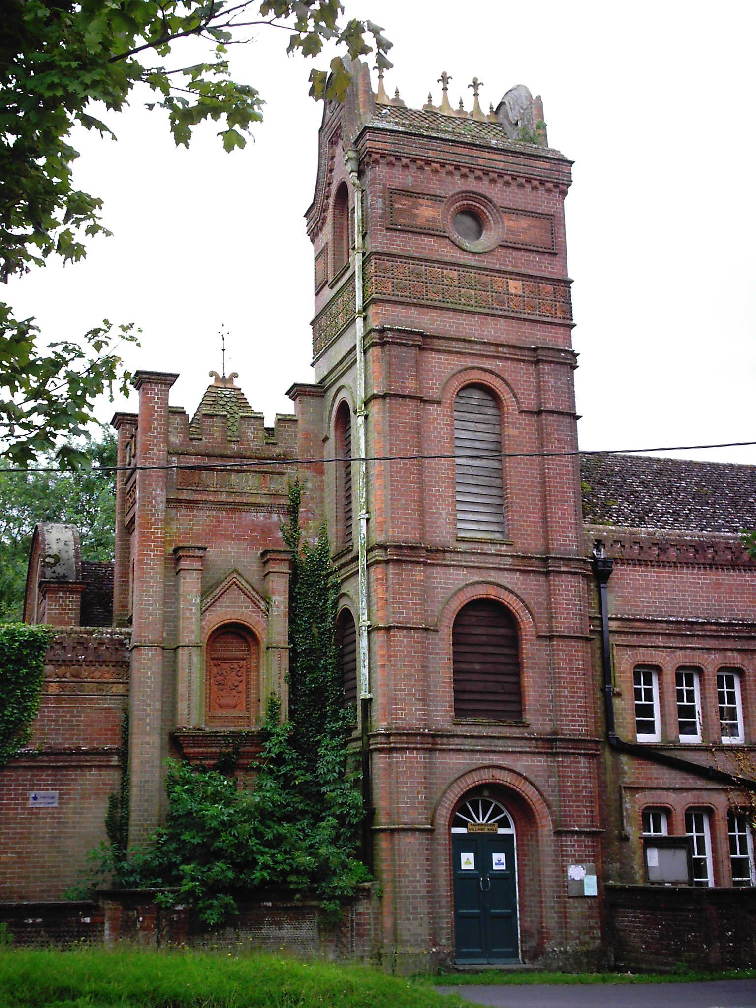 Massey's Folly. Suzanne Knights, my pic, July 2007